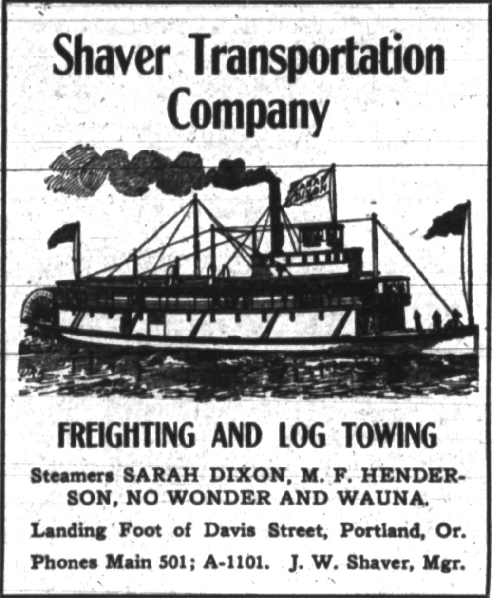 Advertisement for steamers of Shaver Transportation Company.